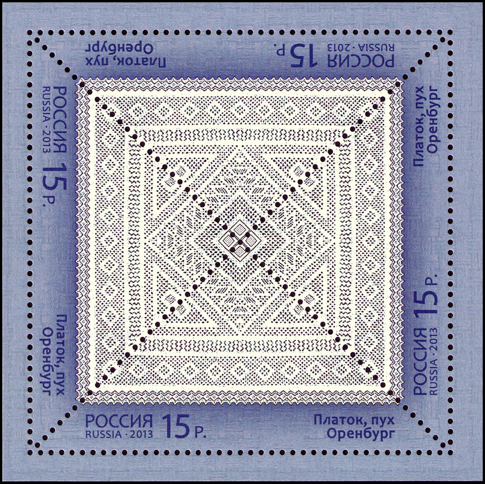 Decorative and Applied Arts of Russia (ongoing stamp series, issue III). Headscarves. An Orenburg shawl. The stamp of Russia, 15.00 Rubles, 5 July 2012, PTC Marka Catalogue No 1715, Michel No 1947. The triangular stamps were issued in the sheets of small format: 4 stamps in 1 sheet. Coated paper. Multioloured. Perforation: frame 11½. Size of the stamp: 50×50×70 mm (35×70 mm). Size of the stamp sheet: 80×80 mm. Print run: 200,000 stamps.